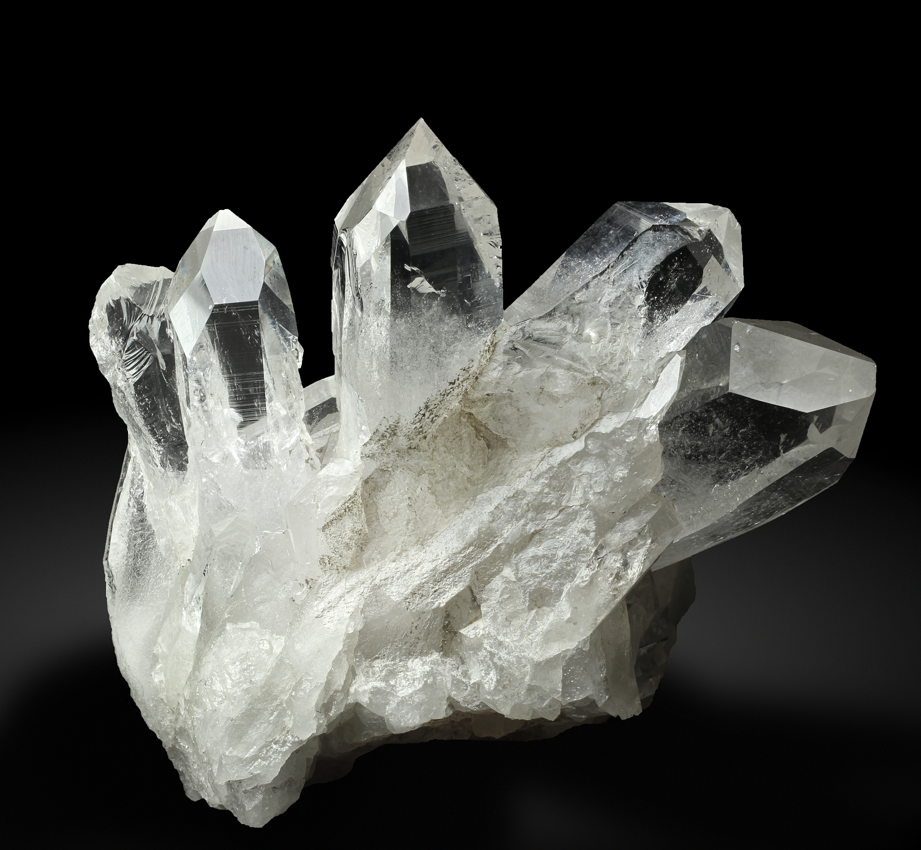 Transparent quartz crystals from San Pedro Manrique, Soria, Spain